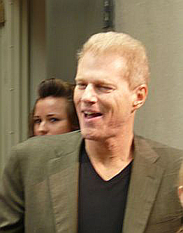 Noah Nicholas Emmerich (born February 27, 1965) - American film actor.